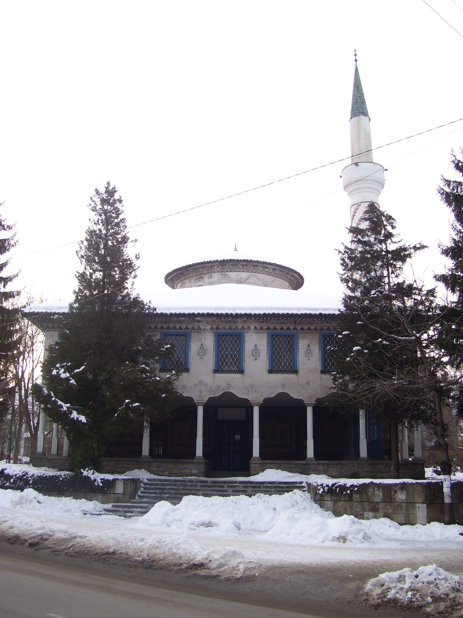 Bayrakli Mosque, Samokov, Bulgaria.